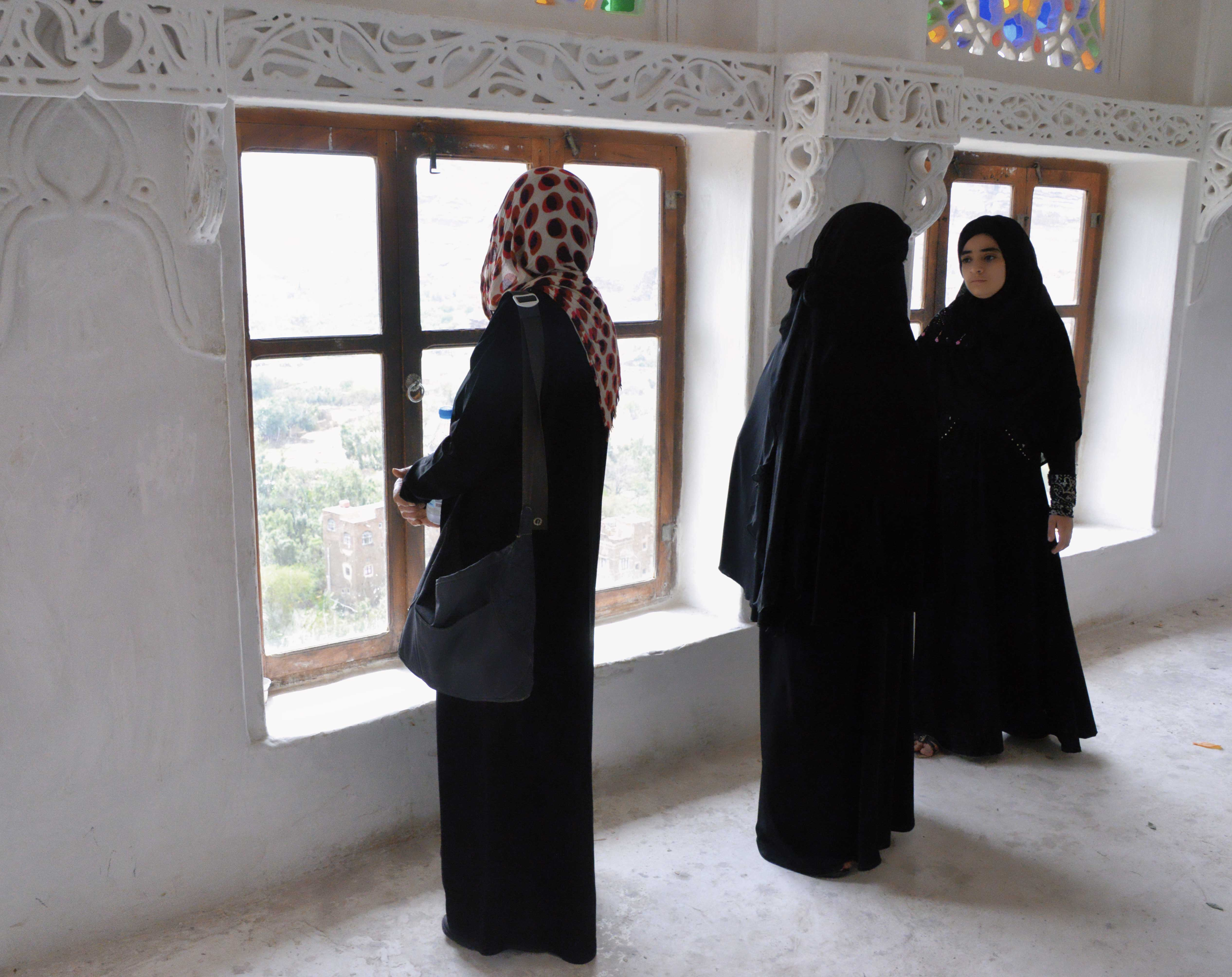 Be respectful, dress locally, Yemen